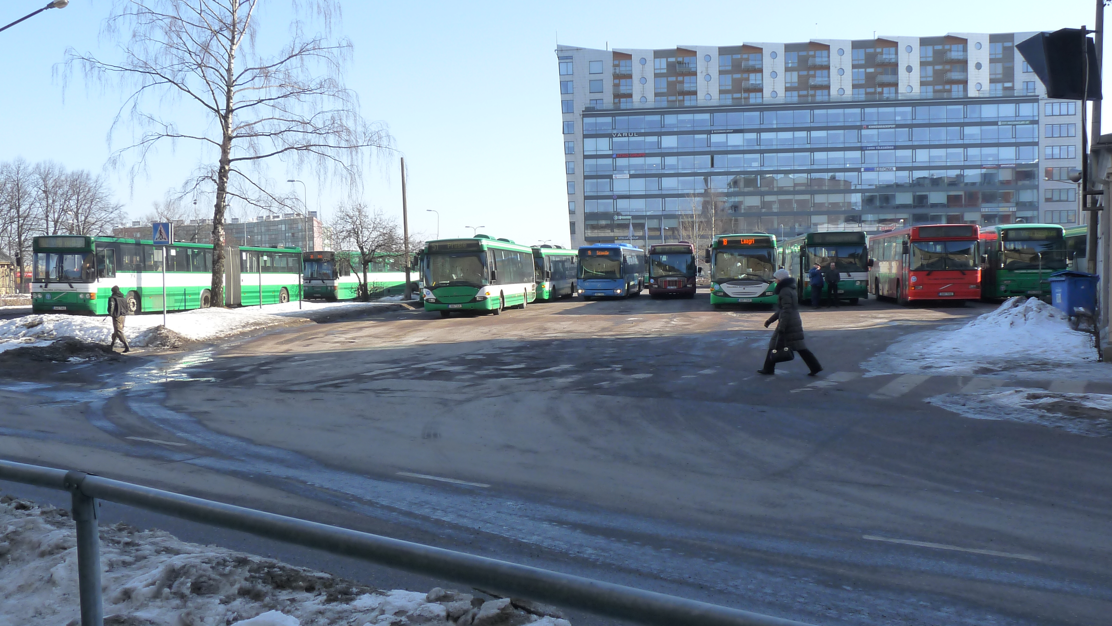 Public buses in Tallinn